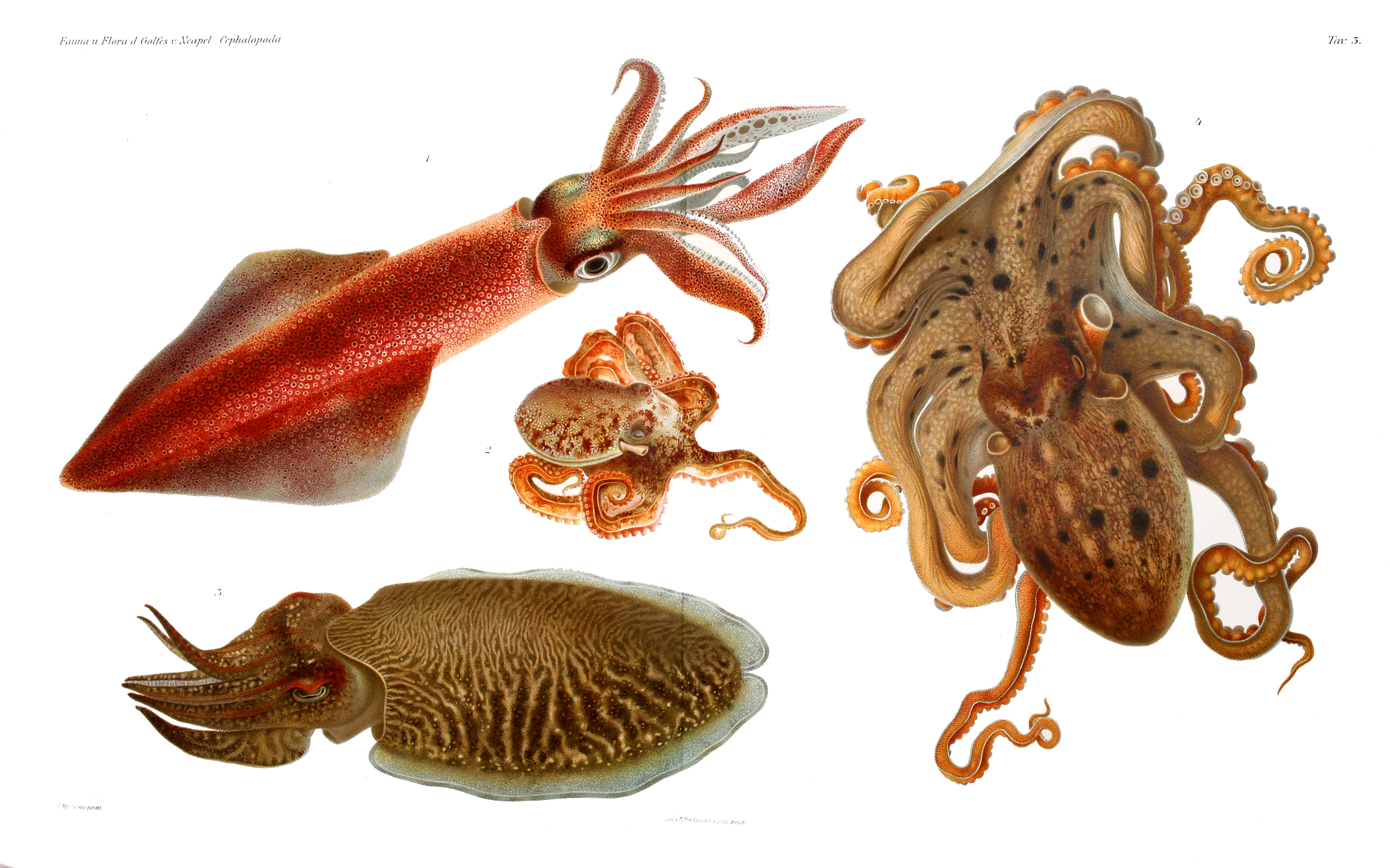 Giuseppe Jatta,1896 I Cefalopodi viventi nel Golfo di Napoli (sistematica) : monografia Series: Fauna und Flora des Golfes von Neapel und der angrenzenden Meeres Abschnitte ; 23. Monographie Stazione zoologica di Napoli Berlin :R. Friedländer & Sohn,1896 Tav.3 Illustration by Comingio Merculiano (1845- 1915),the in-house illustrator (from 1885) at Naples Zoological Station. He was a professional watercolour painter. 1. Loligo vulgaris Lamarck, 1798 European squid 2. Scaeurgus unicirrhus (Chiaie, 1839-41 in Férussac and D'Orbigny, 1834-1848) Atlantic Warty Octopus or Unihorn Octopus 3. Sepia officinalis Linnaeus, 1758 Common Cuttlefish or European Common Cuttlefish 4. Eledone moschata (Lamarck, 1798) Musky Octopus